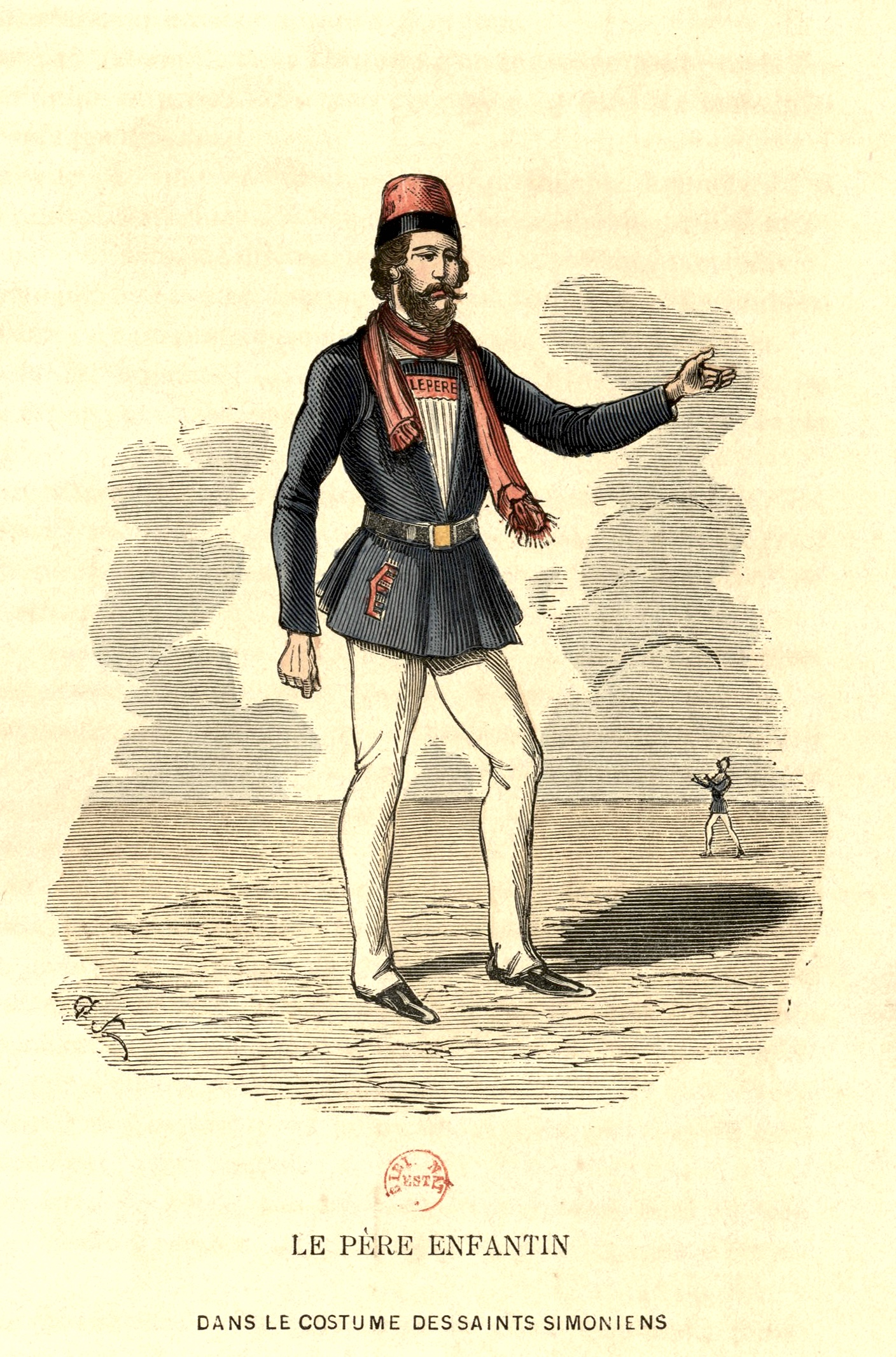 Prosper Enfantin (1796–1864), French social reformer, one of the founders of Saint-Simonianism wearing the Saint-Simonian uniform. Derveaux, éditeur